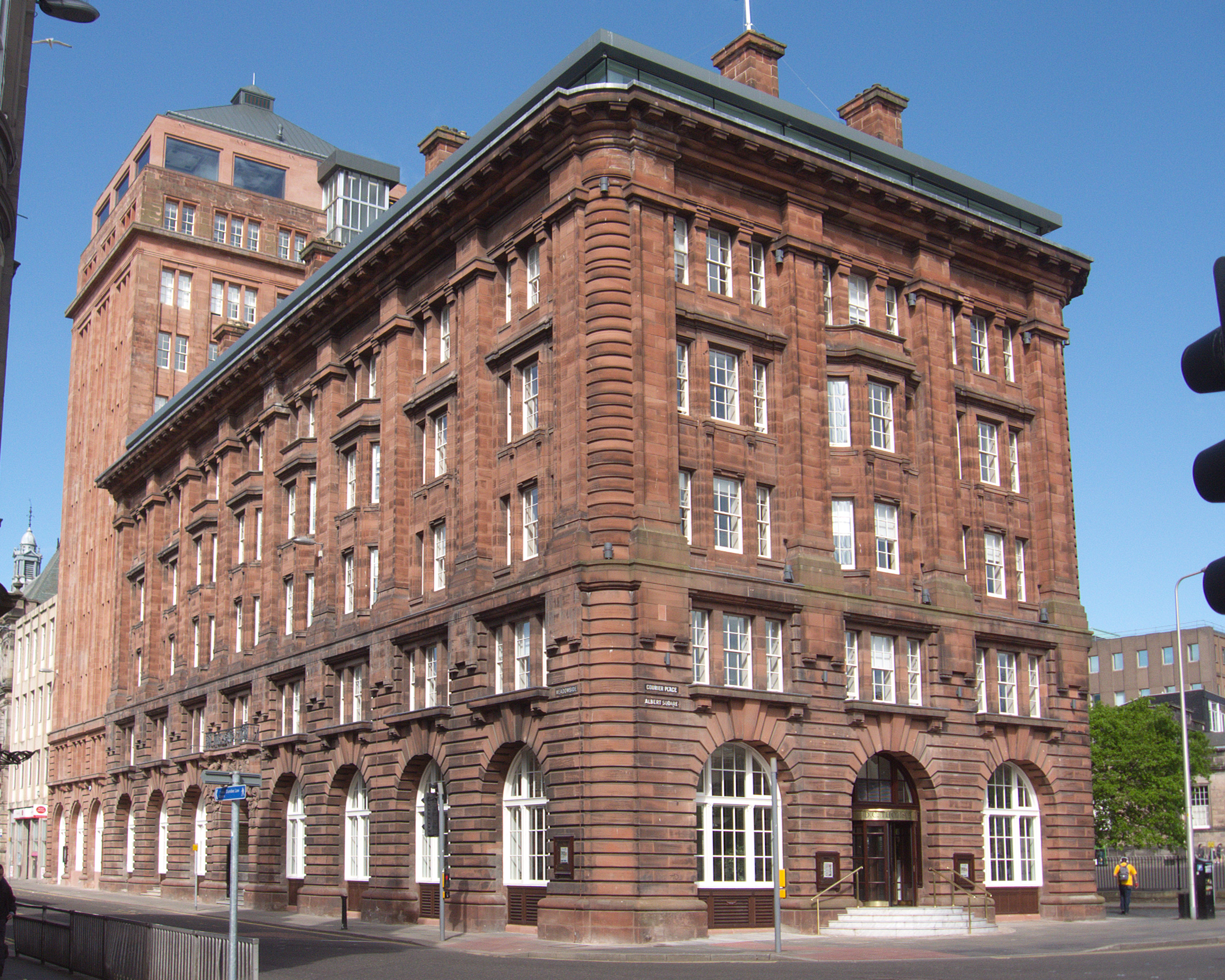 Refurbished DC Thomson building, May 2017, shortly after reopening. Perspective correction has been applied to this image.